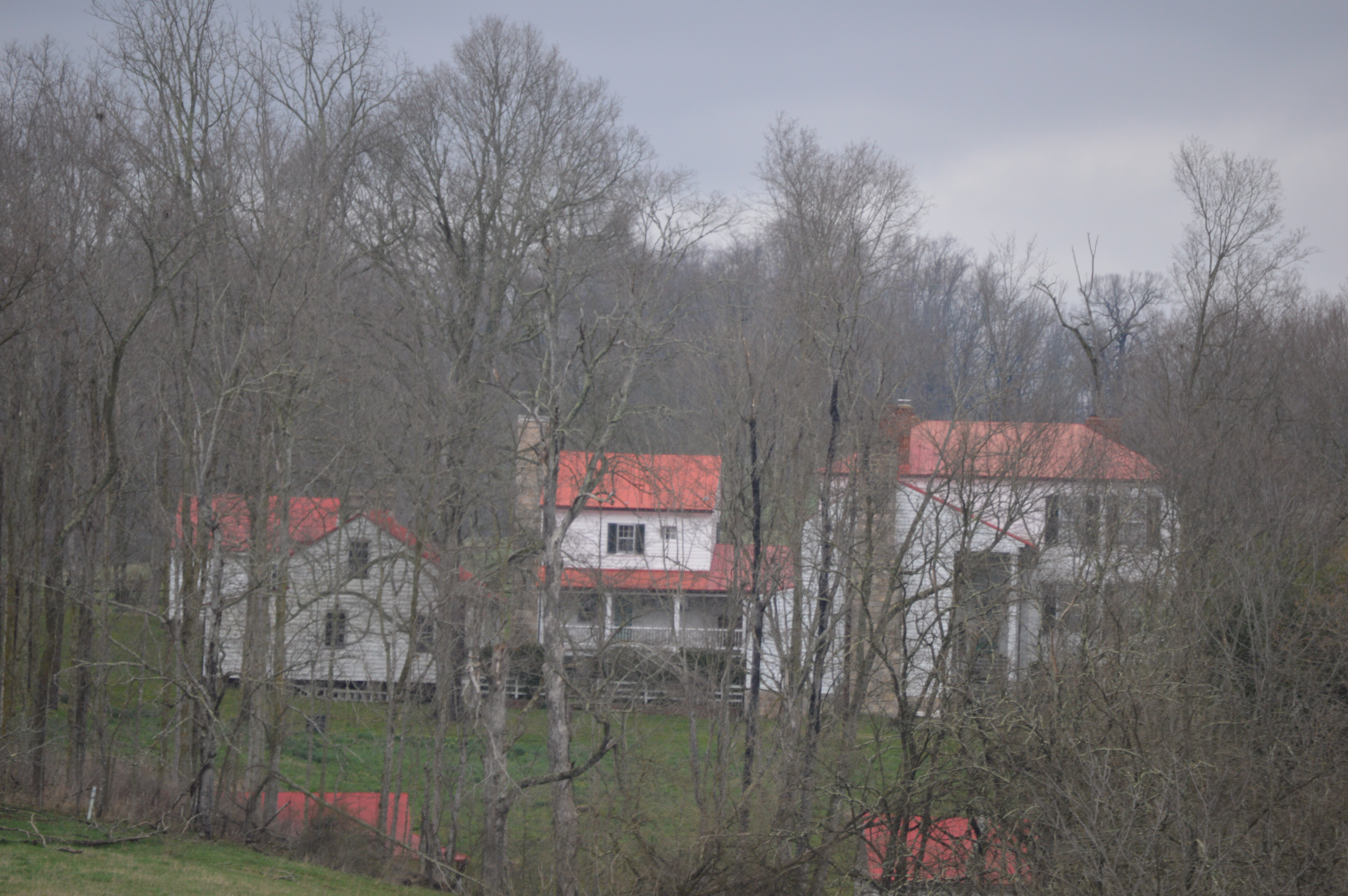 Distant view from the south of Walnut Grove, located along U.S. Route 219/West Virginia Route 3 north of Union in Monroe County, West Virginia, United States. The farmstead is listed on the National Register of Historic Places.